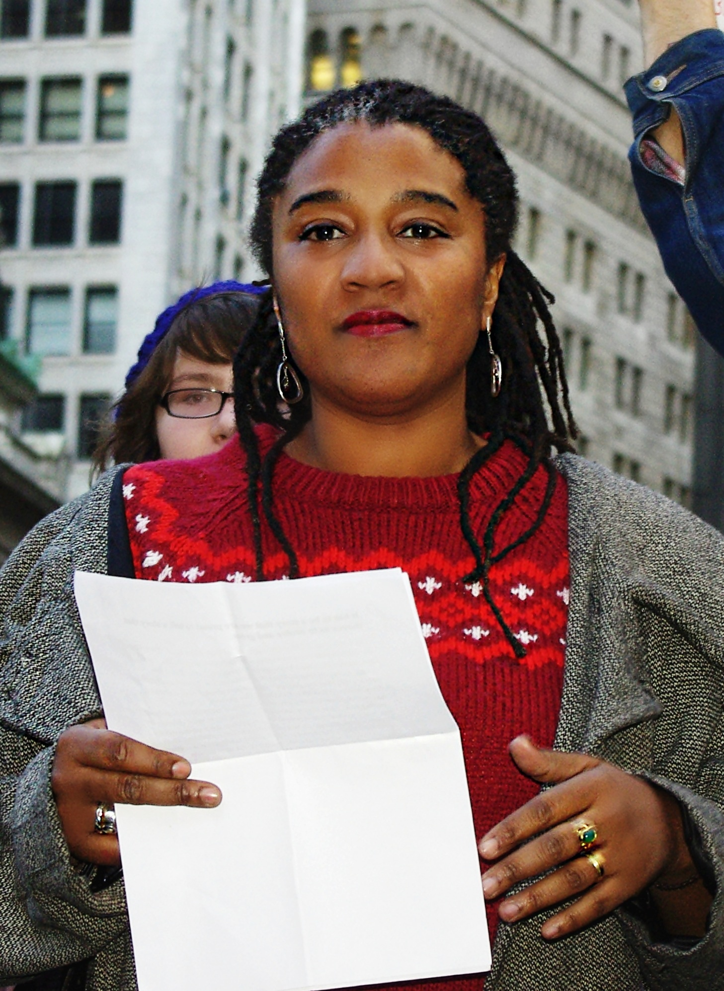 Lynn Nottage giving a reading at Occupy Wall Street.